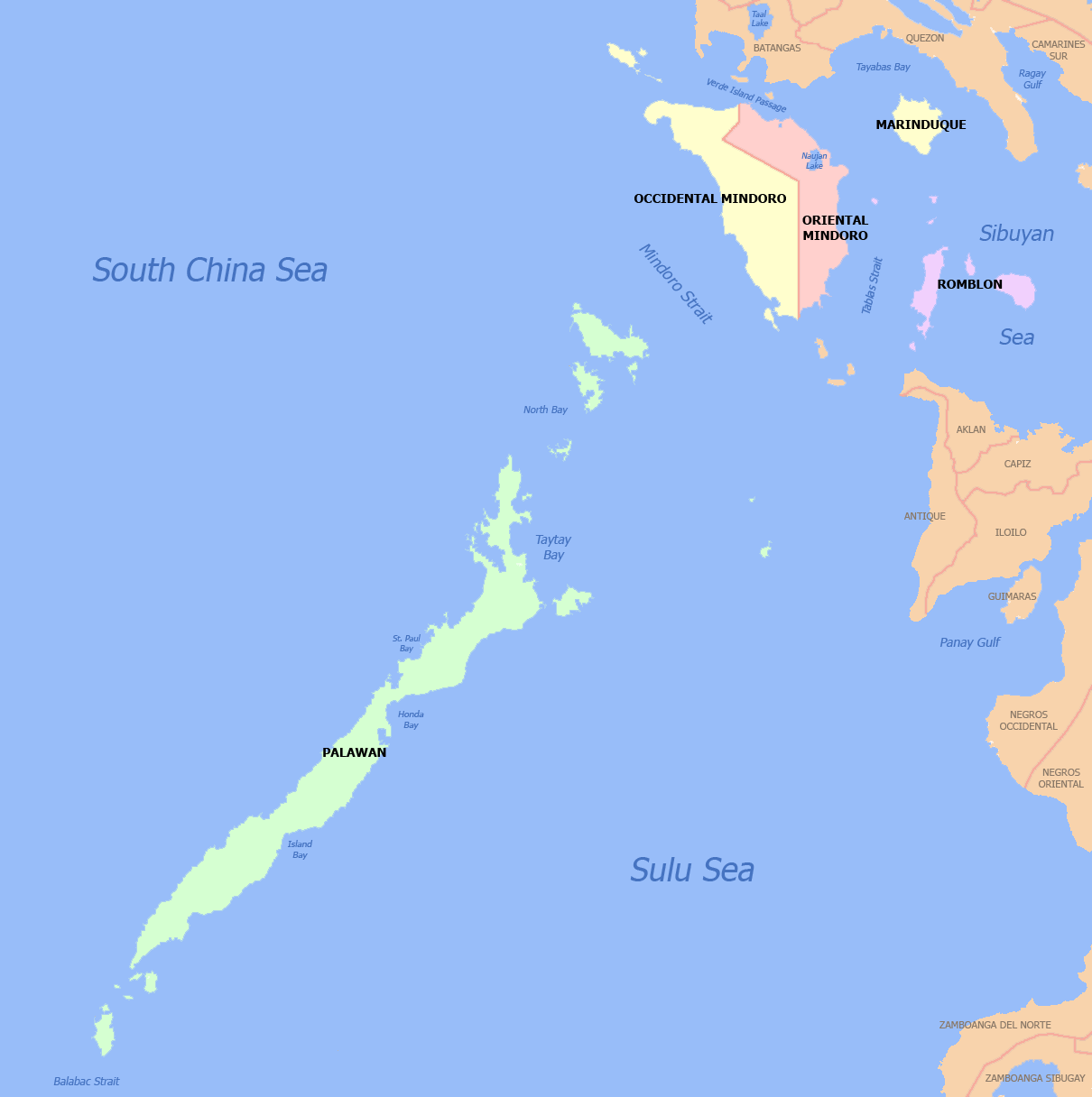 Political map of MIMAROPA Region, Philippines. Showing Marinduque, Occidental Mindoro, Oriental Mindoro, Palawan and Romblon. Used the map template :Image:BlankMap-Philippines.png by User:TheCoffee.